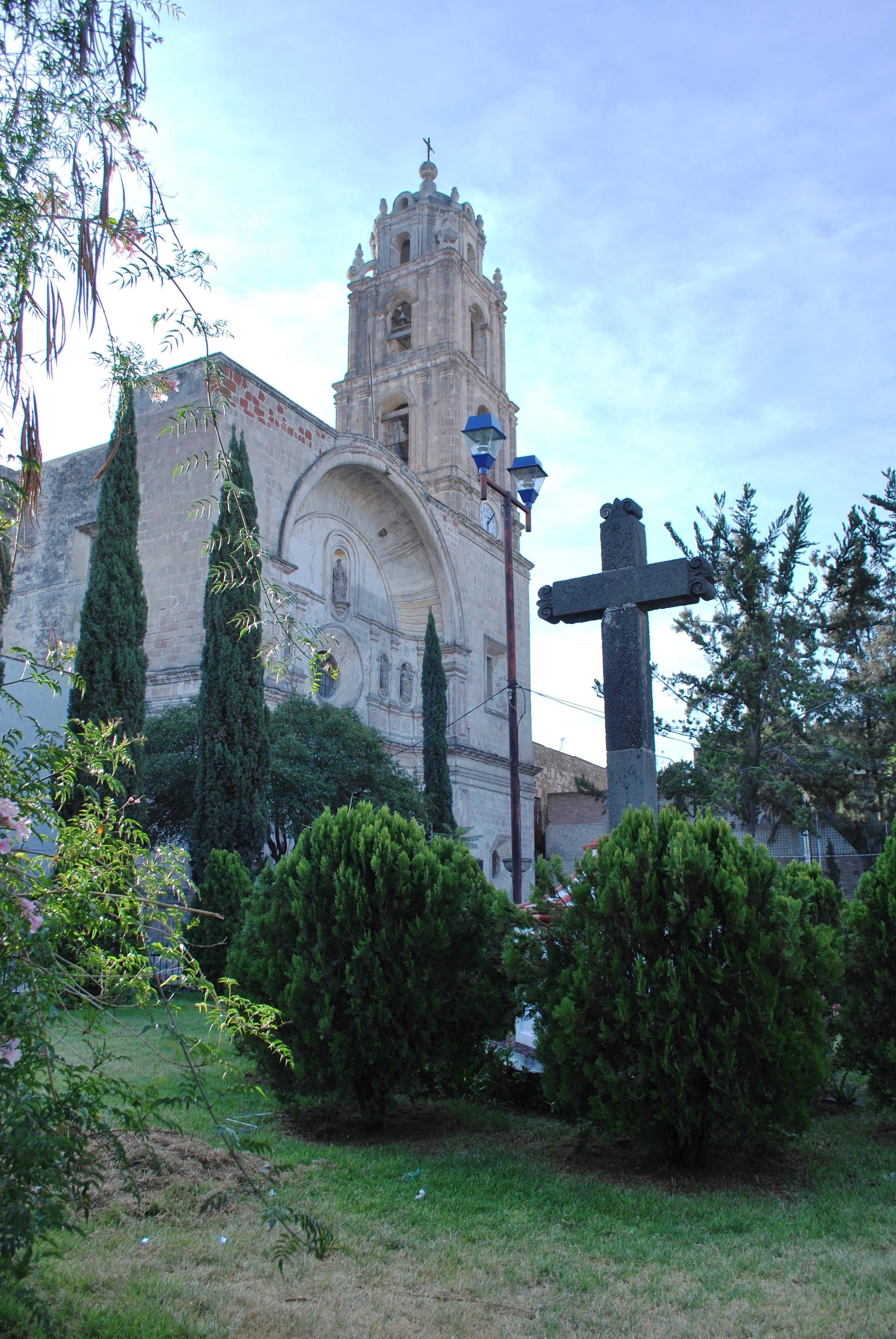 View of the Purisima Concepcion parish in Zumpango, Mexico State